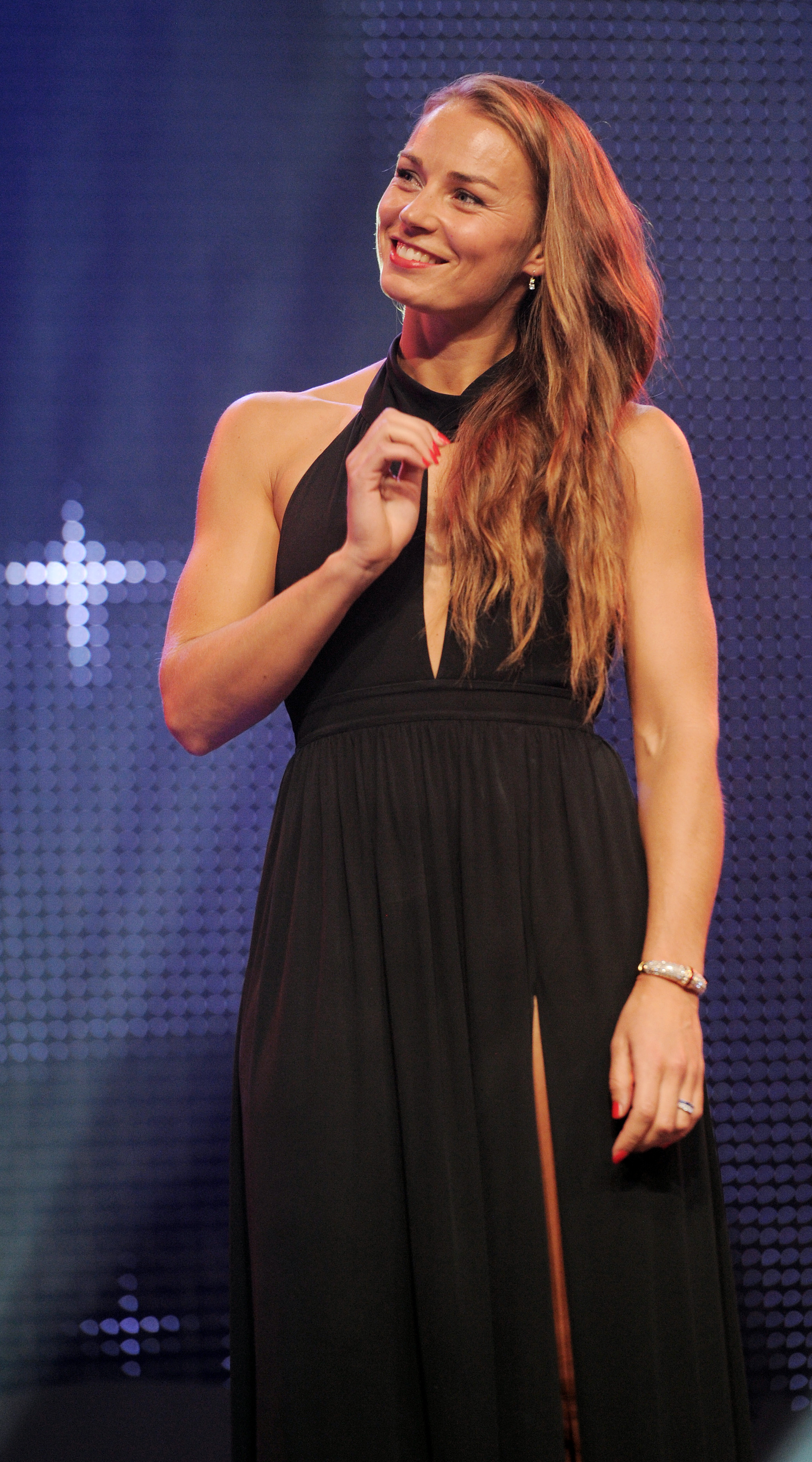 Davos, 03.10.2014. Sport, 12. Internationale Sportnacht Davos 2014. Skiolympiasiegerin Tina Maze.. Copyright by: foto-net / Kurt Schorrer